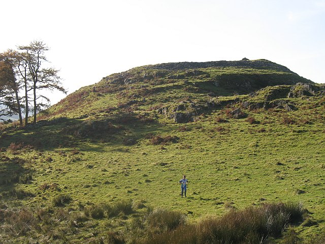 Hill fort, Dreva A very fine example of a hill fort with some intact masonry and chevaux de frise, (which are still good at slowing down orienteers).